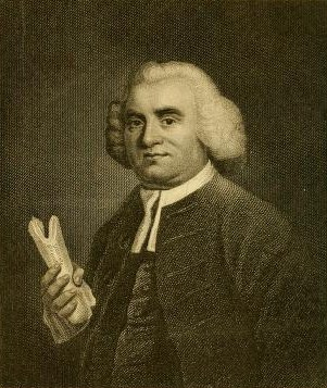 Portrait of John Macgowan (1726–1780), Scottish Baptist minister.